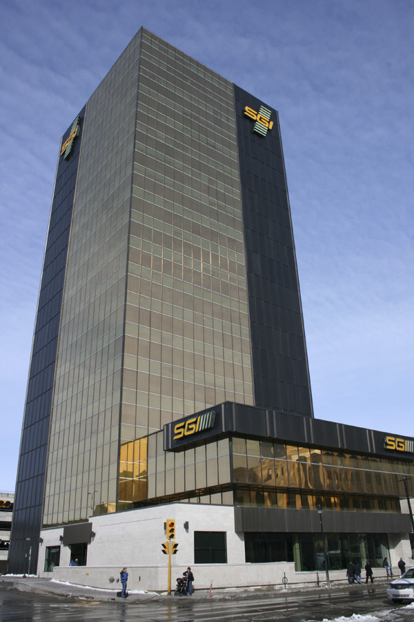 Photo of Saskatchewan Government Insurance (SGI) head office in Regina, Saskatchewan, Canada.